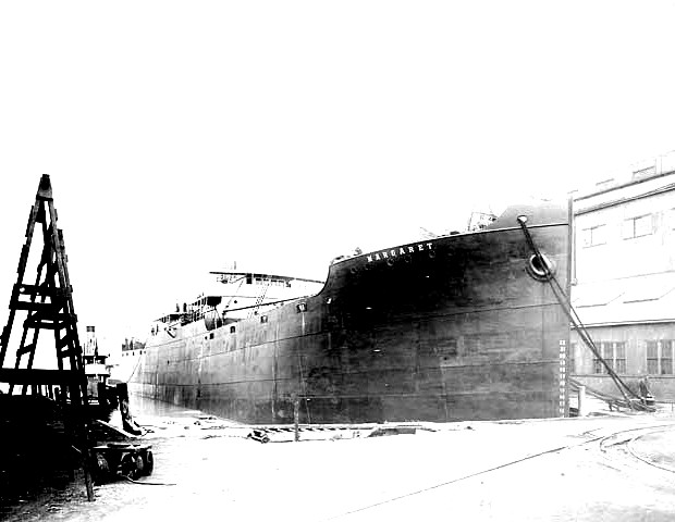 Photo #: NH 95933 S.S. Margaret (American freighter, 1916) Photographed on 6 April 1916, around the time of the ship's completion at Sparrows Point, Maryland. She was commissioned as USS Margaret (ID # 2510) on 25 March 1918, renamed USS Chatham on 18 April 1918, and decommissioned on 10 February 1919. U.S. Naval Historical Center Photograph.